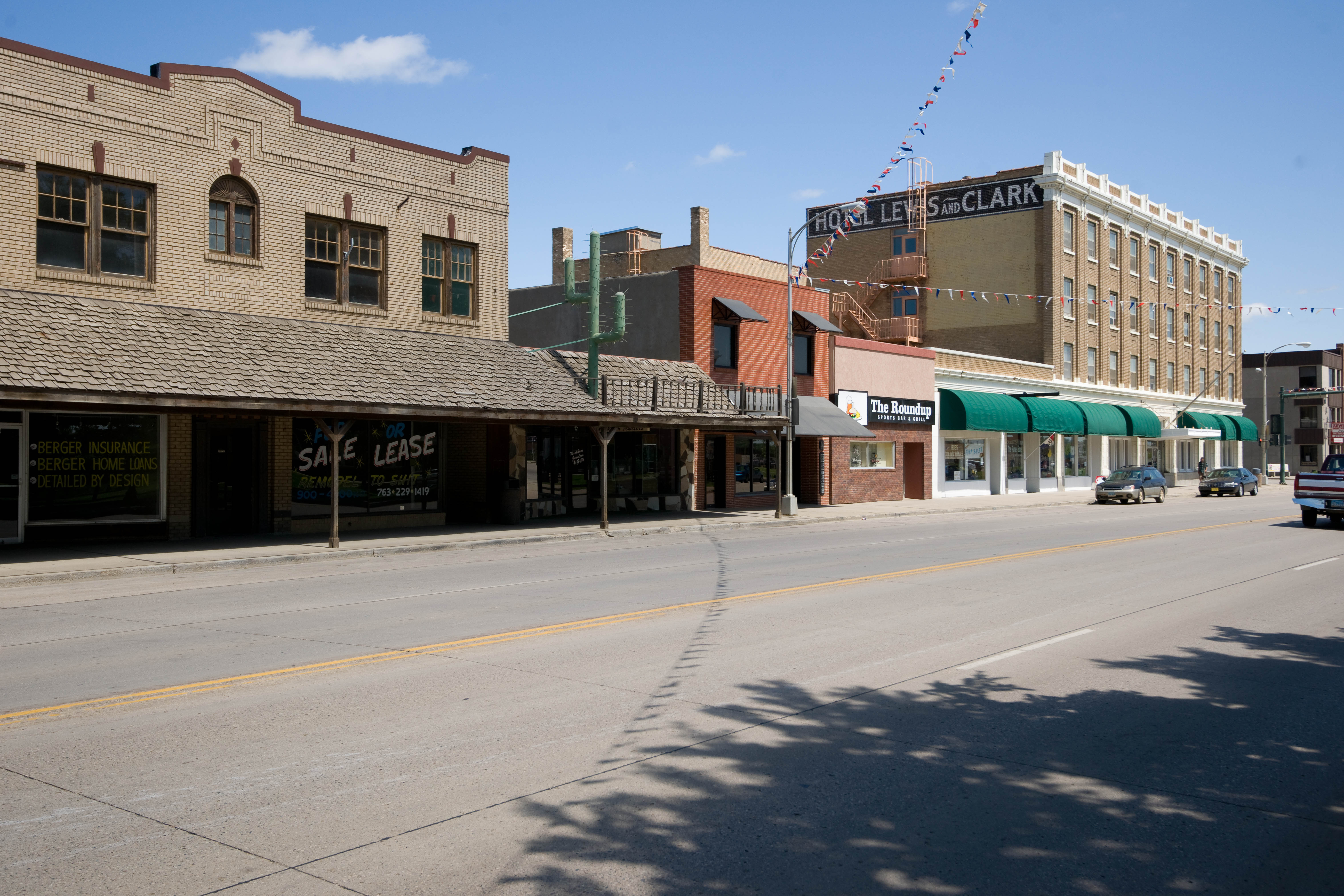 400 Block of W. Main Street in Mandan, North Dakota, part of the NRHP-listed Mandan Commercial Historic District. In the background at right is the NRHP-listed Lewis and Clark Hotel.